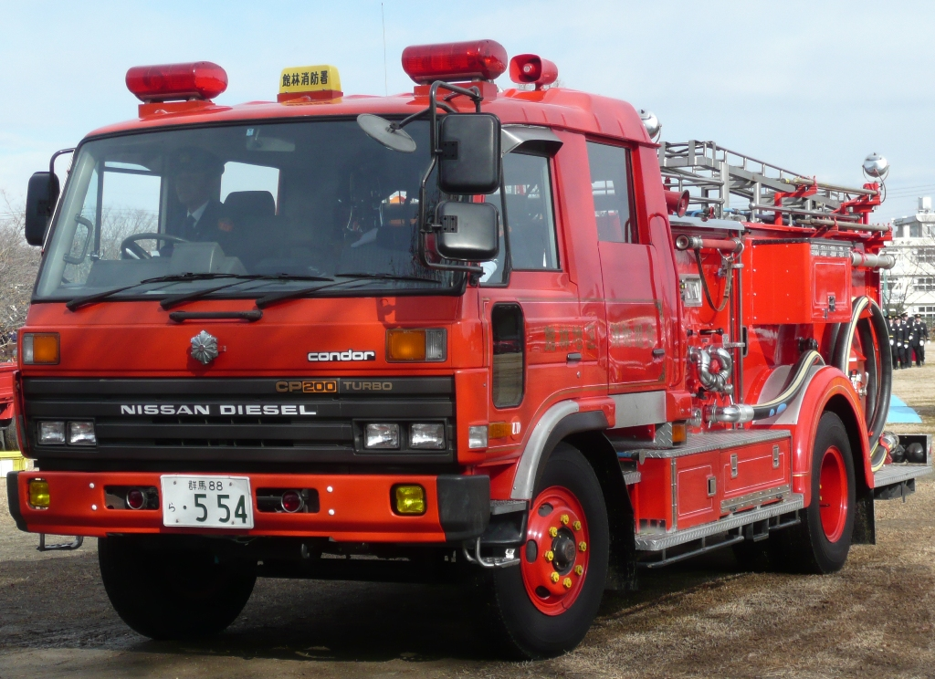 Nissan Diesel Condor CP200 fire truck in Tatebayashi, Japan